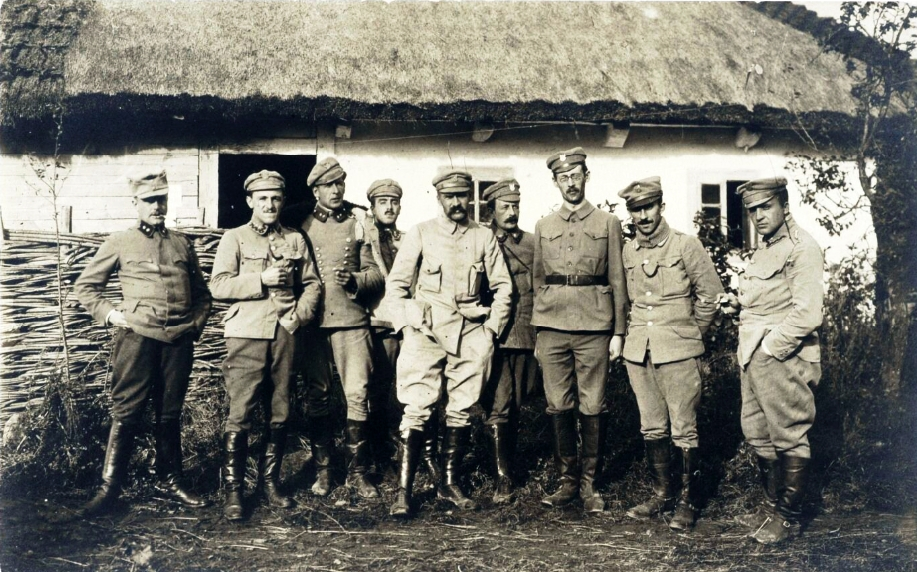 Officers of the 1st Brigade of Polish Legions. Kobcze 1916. Tadeusz Piskor, Józef Piłsudski, Bolesław Długoszowski-Wieniawa, Ignacy Boerner, Zygmunt Sulistrowski, Emil Bobrowski, Konstanty Dzieduszycki